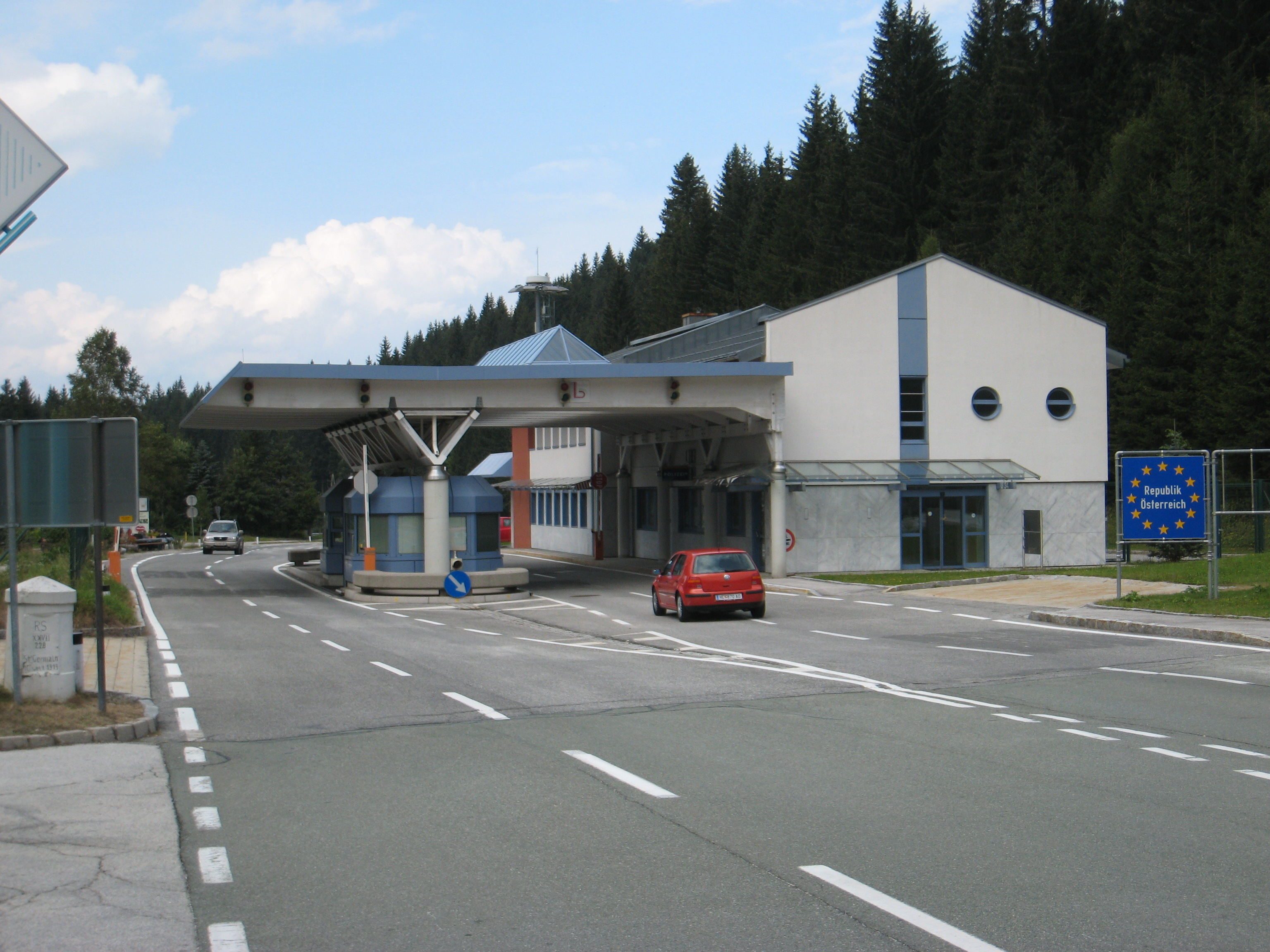 The Austrian sign and border post at the Wurzenpass. The post was non-operational at the time this photo was taken, the Schengen agreement having come into force in 2007.